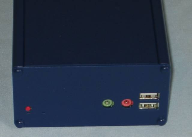 Advantage Six A9home (front).This picture shows the front of the A9home with 2 USB ports and the speaker sockets. The red button to the left is the power on/off/shutdown/restart button. SpecificationSerial No.D1795820GUnique Identity0000008E0600Motherboard part no.note 1Motherboard serial no.note 1CPU TypeARM9CPU ModelSamsungCPU Clock400 MHzMemory Controllernote 1Memory128MB SDRAM8MB VRAMMemory clocknote 1Graphics processorSM501Floppy Disc DrivenonePodulesnoneNetwork10/100 BaseTother upgradesnoneOSRISC OS Adjust324.42 pre8OS Date16 Mar 2006Benchmarksnote 2